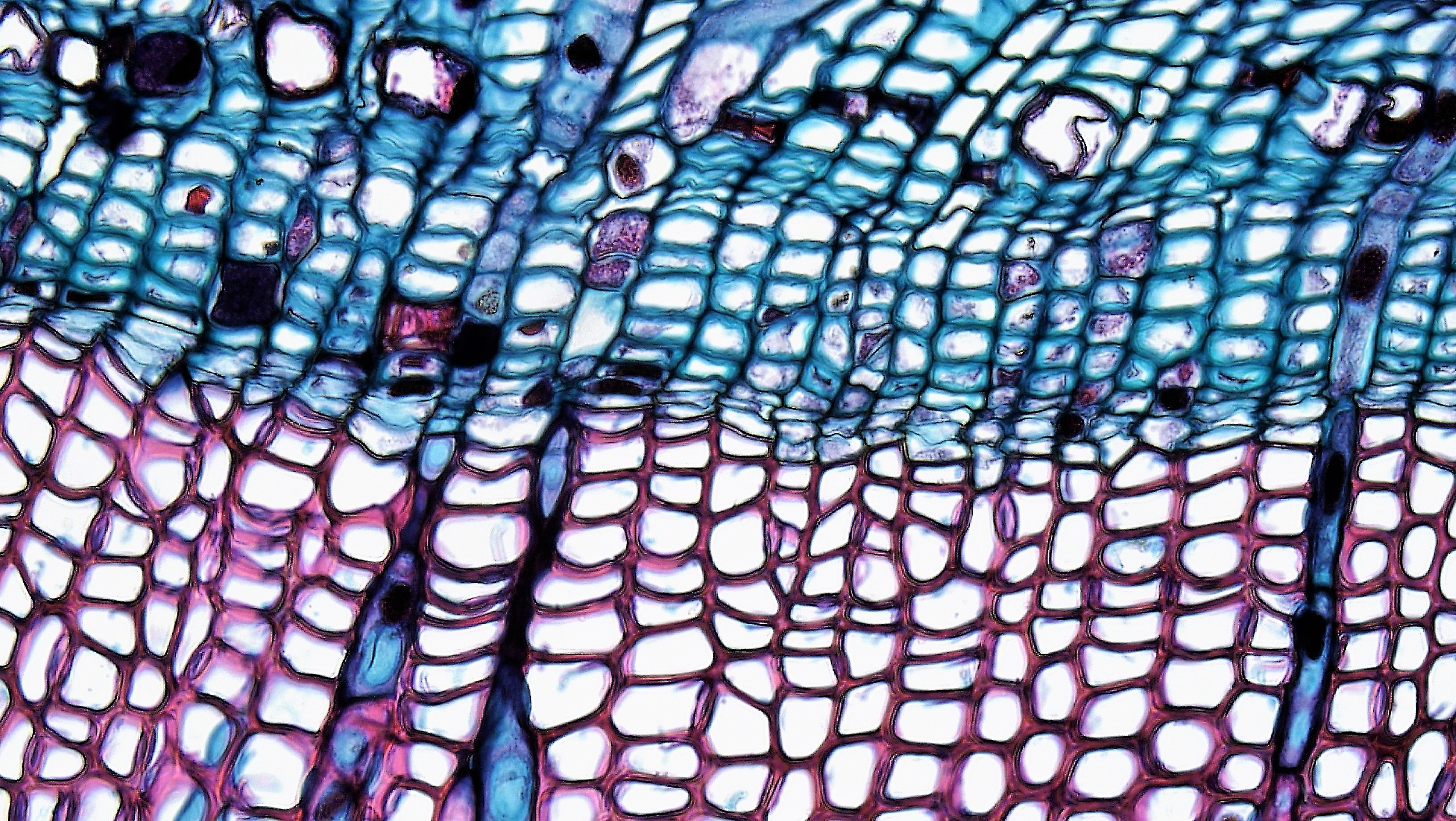 cross section: Pinus stem magnification: 400x The vascular cylinder or stele in young stems consists of a ring of vascular bundles interspaced with medullary rays of parenchyma cells. Seasonal activity of the cambium replaces the isolated vascular bundles with well-defined annual rings of secondary phloem and xylem. Xylem is endarch with protoxylem found towards center of the stem and younger metaxylem towards the periphery of the stem. Protoxylem consists of annular and spiral tracheids with only tracheids found in metaxylem. True xylem vessels are lacking. Because of the greater production of xylem, the vascular cylinder is dominated by radially arranged rays of secondary xylem interspaced with medullary rays of parenchyma cells. Conspicuous resin ducts are present throughout the xylem. Phloem is endarch but annual growth the of stem makes it difficult to distinguish between older protophloem to the periphery and younger metapholem towards center of the stem. Phloem lacks companion cells, consisting entirely of sieve tubes and phloem parenchyma. Medullary rays in the secondary phloem include protein rich albuminous cells.